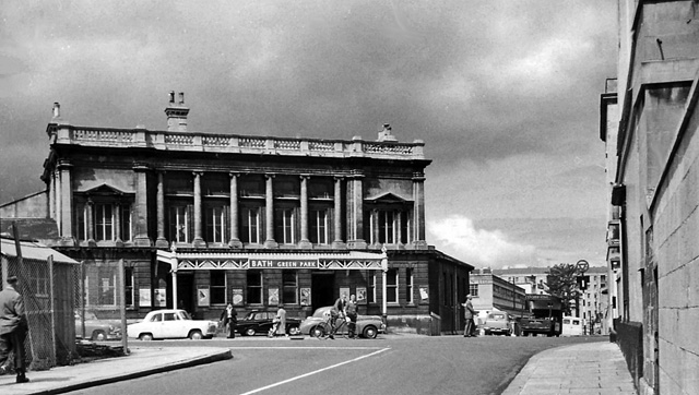 Bath (Green Park) Station. Near to Bath, Bath And North East Somerset, Great Britain. View westward of imposing front of station; at corner of Green Park (to left) with James Street (ahead). The station was called Queen Square until 18/6/51. It was the terminus of the former Midland Railway line from Mangotsfield that connected there with the Birmingham - Bristol main line. It was also the terminus of the Somerset & Dorset Joint (Midland & L&SW Rlys) line from Bournemouth West via Templecombe and Evercreech. Both lines were closed on 7/3/66, but the Station has survived, to become a Market -- accessed only by road.